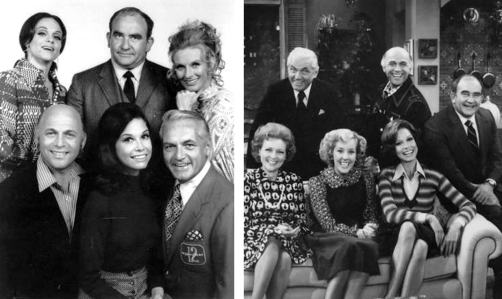 Publicity photo of the cast of The Mary Tyler Moore Show picturing cast members from its first program in 1970 to its last in 1977. Photo left is the 1970 cast: From left: Top: Valerie Harper (Rhoda Morgenstern), Ed Asner (Lou Grant), Cloris Leachman (Phyllis Lindstrom). Bottom: Gavin MacLeod (Murray Slaughter), Mary Tyler Moore (Mary Richards), Ted Knight (Ted Baxter). Photo right is the 1977 cast: From left Standing: Ted Knight (Ted Baxter), Gavin MacLeod (Murray Slaughter), Ed Asner (Lou Grant). Seated: Betty White (Sue Ann Nivens), Georgia Engel (Georgette Baxter), Mary Tyler Moore (Mary Richards).